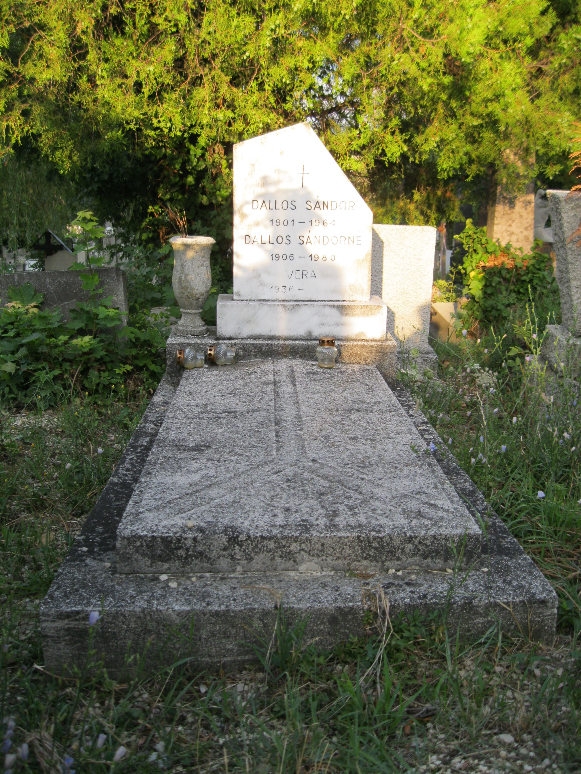 Tomb of Sándor Dallos in Farkasréti Cemetery [44/6-2-6]